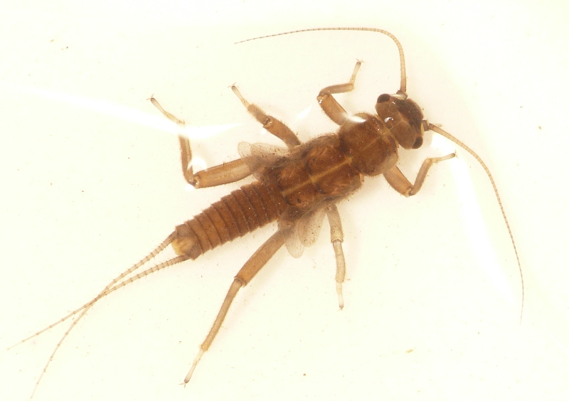 Nemoura cinerea nymph. Location: The Netherlands - Heelsum - Heelsumse Beek zuid